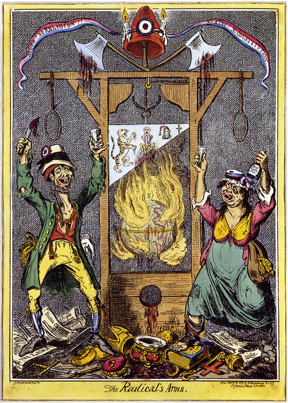 Caricature by George Cruikshank. The tricolor ribbon is inscribed "No God! No Religion! No King! No Constitution!" Below the ribbon, and its Phrygian cap with tricolor cockade, are two bloody axes, attached to a guillotine, whose blade is suspended above a burning globe. An emaciated man and drunken woman dressed in ragged clothes serve as heraldic "supporters", gleefully dancing on discarded royal and clerical regalia...